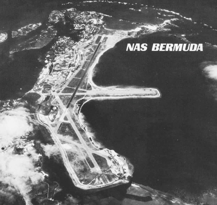 Aerial view of the U.S. Naval Air Station Bermuda, Bermuda Islands, in 1970.